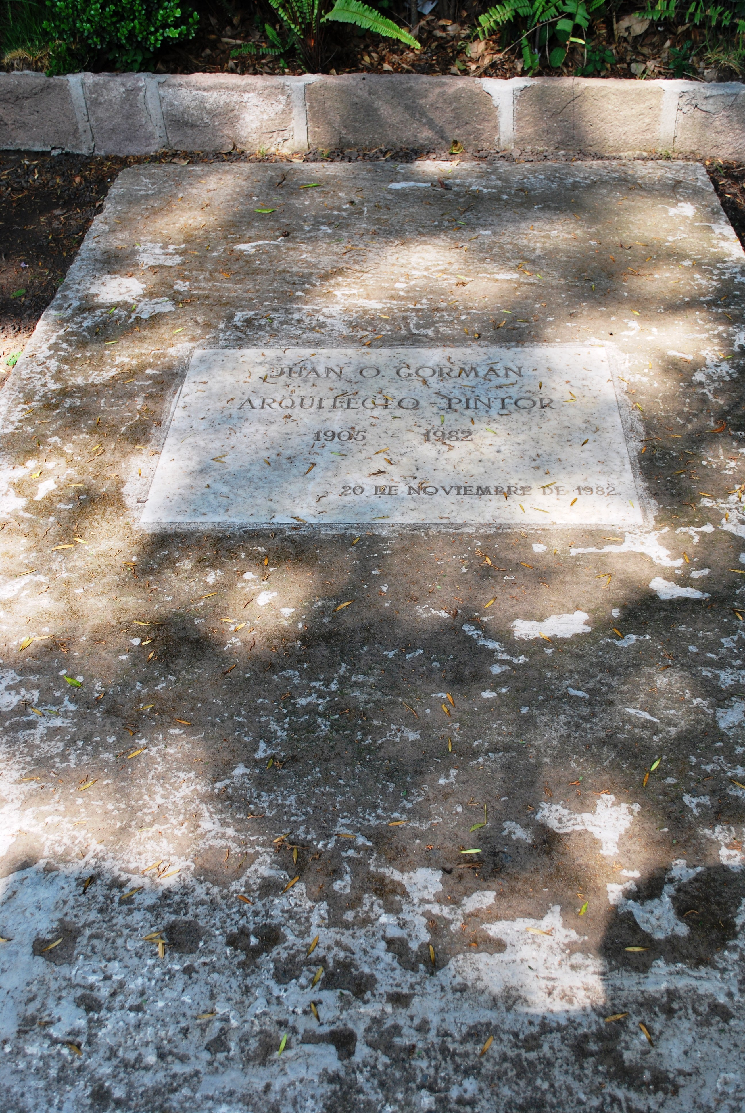 Tomb of Juan O Gorman in the Panteon Civil de Dolores cemetery in Mexico City